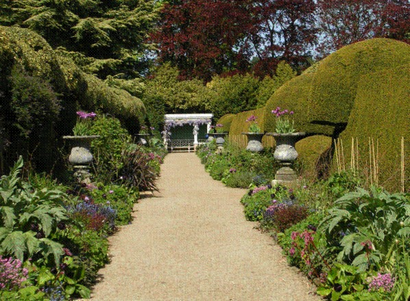 Ascott House garden, Photographed by uploader